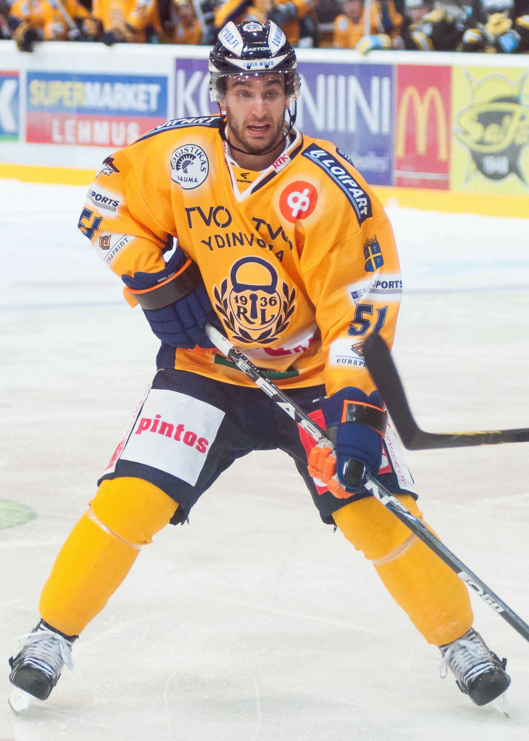 Danish ice hockey center Frans Nielsen playing for Rauman Lukko against SaiPa Lappeenranta in Lappeenranta, Finland.